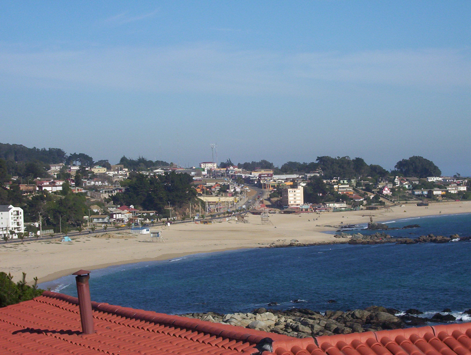 The Los Corsarios ("Corsairs") beach, in El Quisco, Chile.